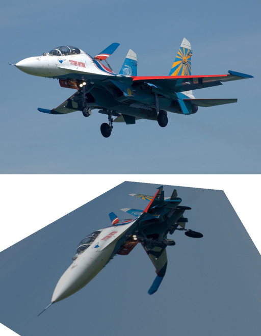 Illustration of difference between pixels and texels. On the above image is a texture. On the image below is the projection of a wall on which the same texture was stretched. During the projection, the textue is built of texels. For each pixel is being decided which texels does it cover and the appropriate color is being given to the pixel.